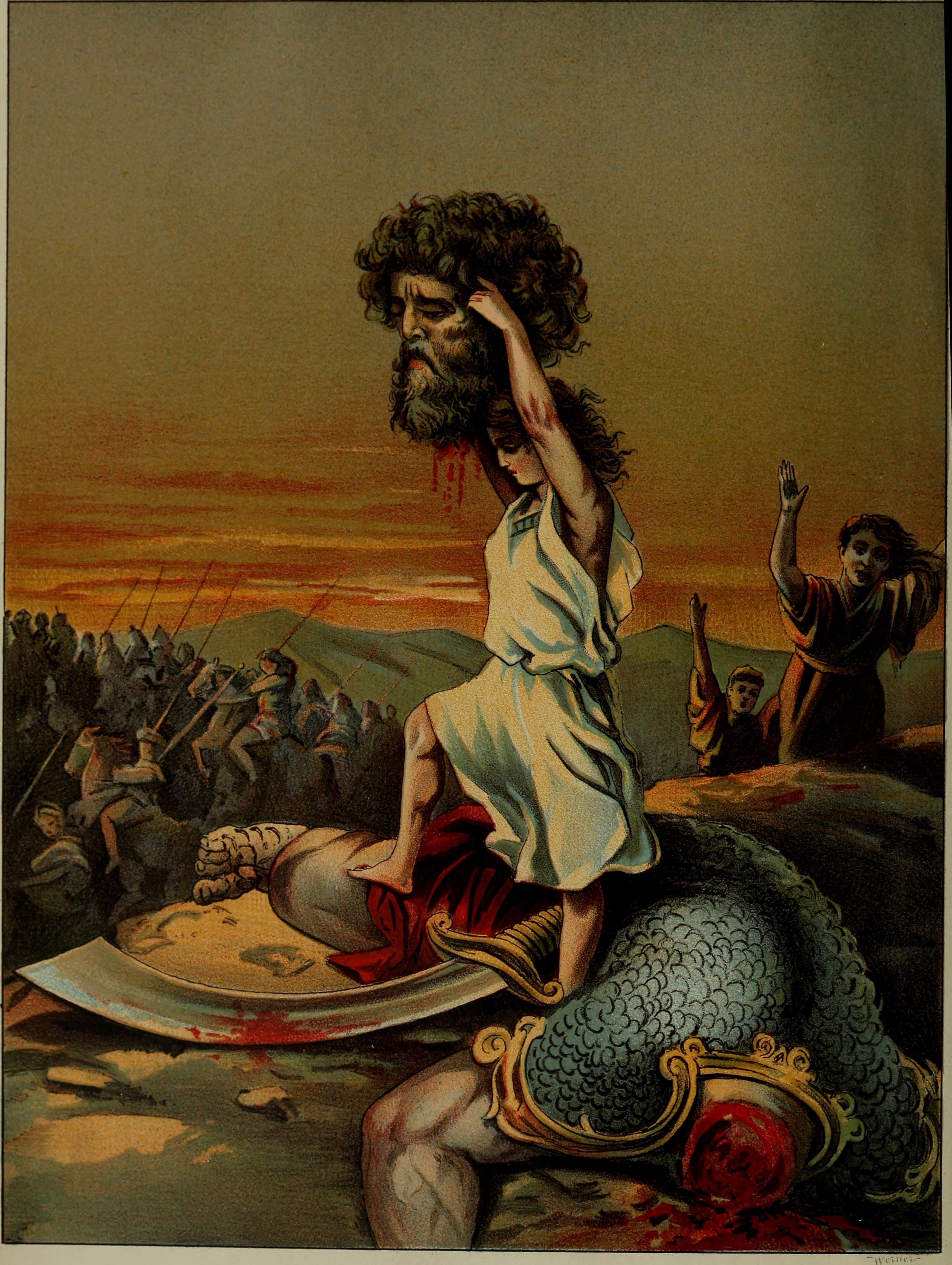 Title: Sweet stories of God; in the language of childhood and the beautiful delineations of sacred art Year: 1899 (1890s) Authors: Pollard, Josephine, 1834-1892. (from old catalog) Subjects: Bible stories, English Publisher: New York, Akron, Ohio (etc.) The Werner company Text Appearing Before Image: 0 014 325 032 5 Text Appearing After Image: DAVID 8v GOLIATH Sweet Stories of (Boo IN THE LANGUAGE OF CHILDHOODAND THE BEAUTIFUL DELINEATIONSOF SACRED ART •««««««• BY JosephinePollard Author of BIBLE FOR YOUNG PEOPLE; HISTORY OF THE OLDTESTAMENT; HISTORY OF THE NEW TESTAMENT; BIBLESTORIES FOR CHILDREN; RUTH, A BIBLE HEROINE; GODMADE THE WORLD; THE GOOD SAMARITAN; THE STORY OFJESUS; THE BOYHOOD OF JESUS; etc., etc. «««««««« « m Illustrated Zbe Werner Company NEW YORK AKRON, OHIO 1899 CHICAGO ^ ?£■■ 38895 Copyright, 1899, BY THE WERNER COMPANY wo copies weceiveo. 4-^3 Viasweetstoriesofgo00poll